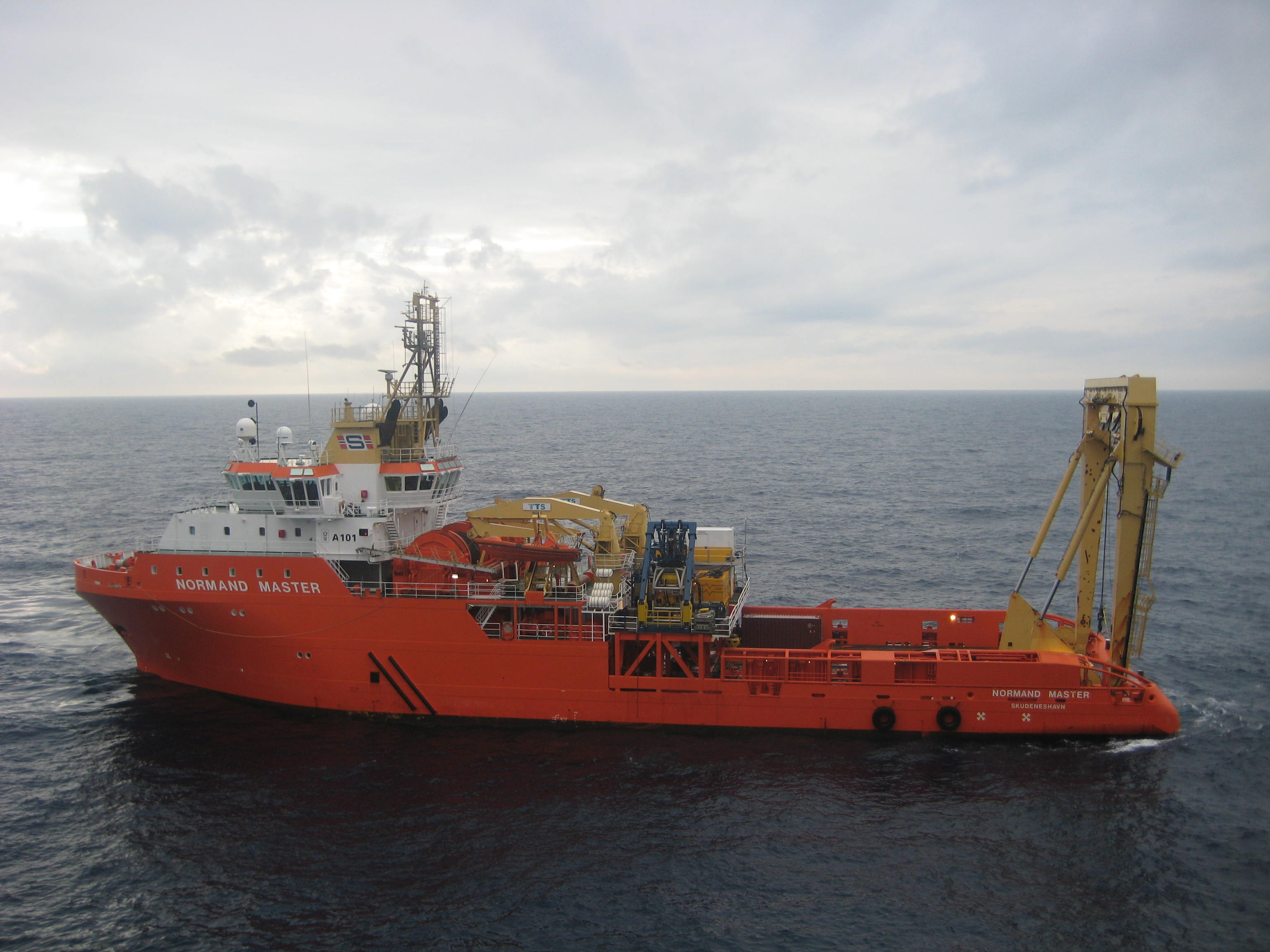 AHTS Normand Master alongside DCV Balder at the Thunder Horse location. IMO number 9266451